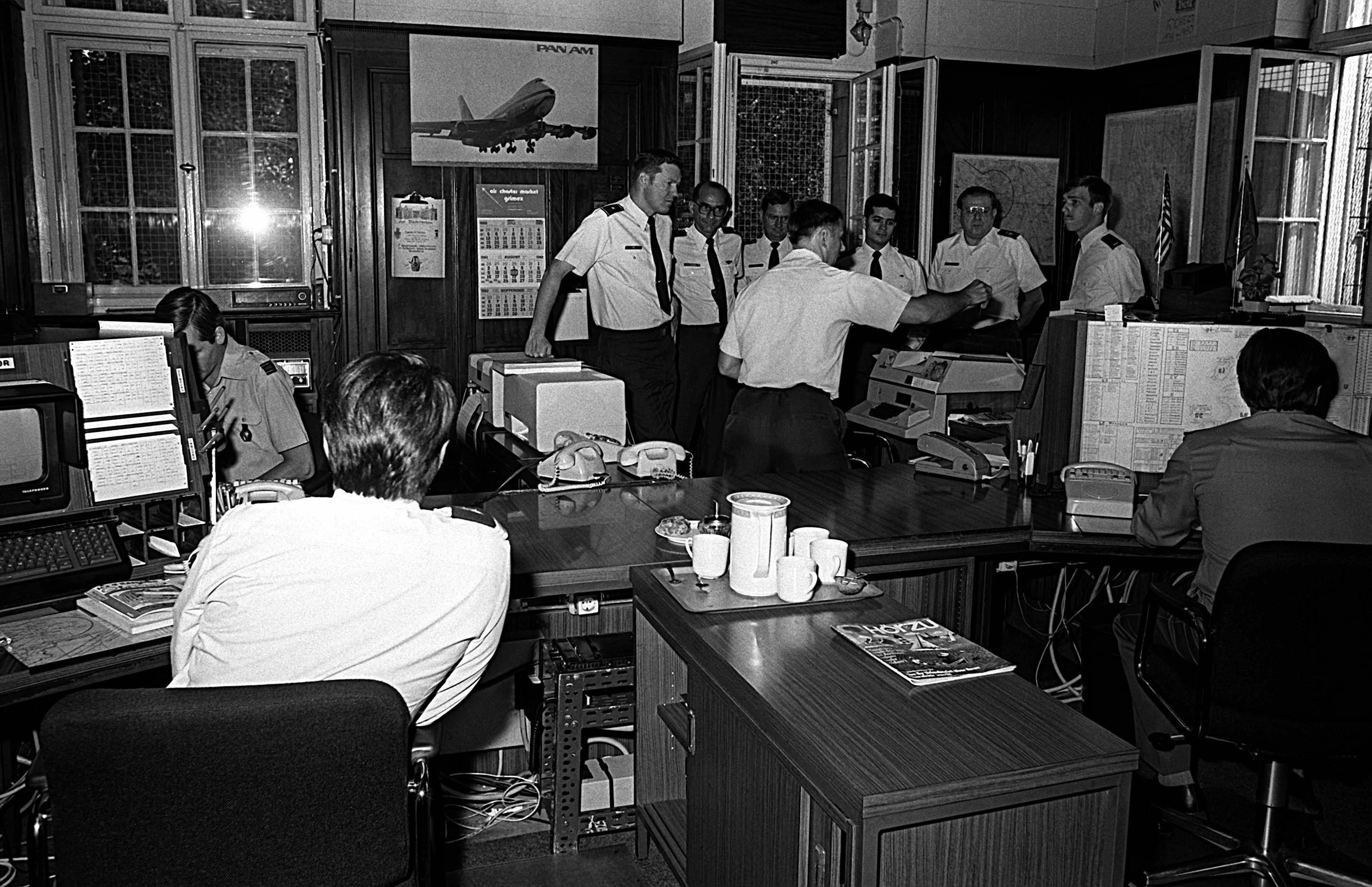 CPT David Briskey (left), briefs visiting BGEN John P. Hyde, on the operations of the Berlin Air Safety Center.